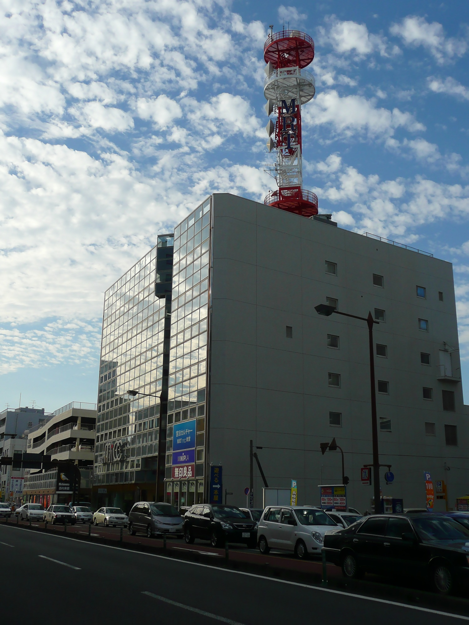 Headquarters of Miyazaki Broadcasting (MRT, JONF-(D)TV, JONF) It is located in Central Miyazaki City, Japan.